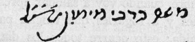 Signature of Maimonides